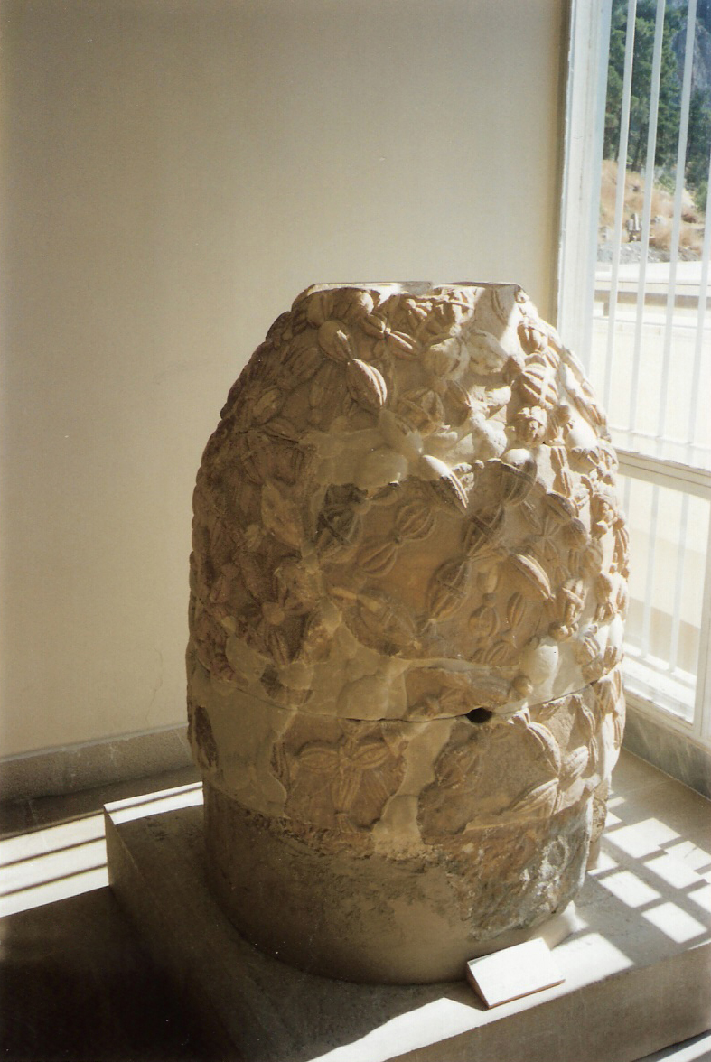 the omphalus of delphi, greece